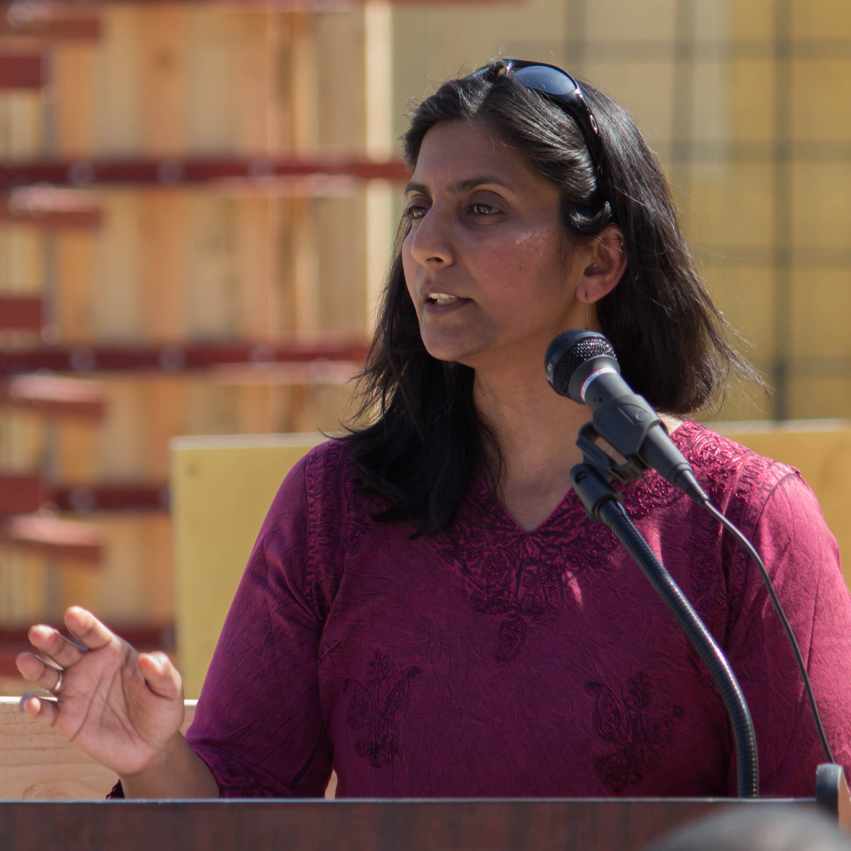 Kshama Sawant celebrated the groundbreaking of University Commons, a Low Income Housing Institute project, which will house homeless youth and low income workers.